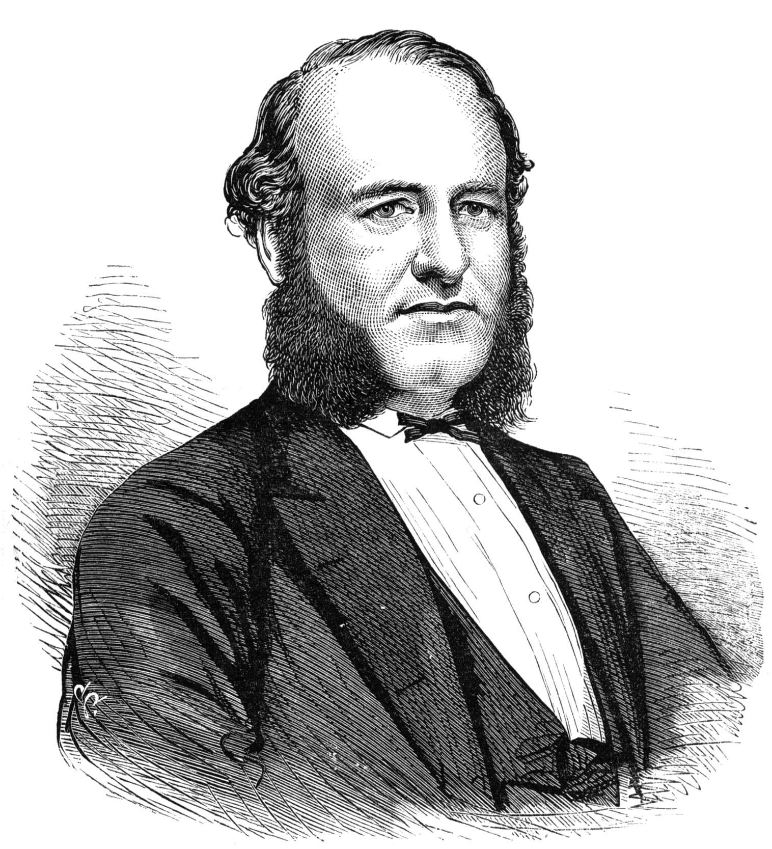 Portrait of William Bates (1825–1891)